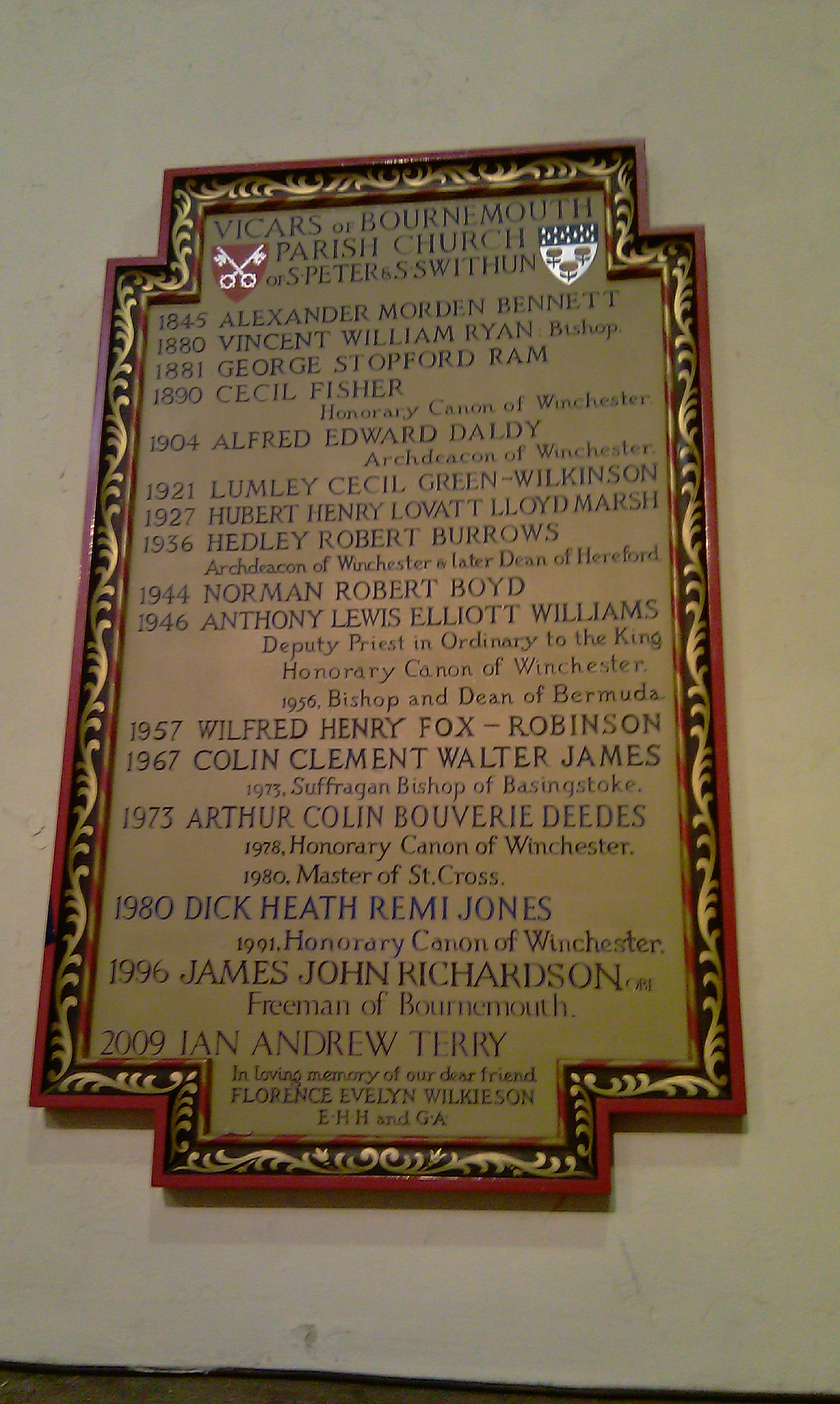 A board showing details of vicars of St. Peter's Church.